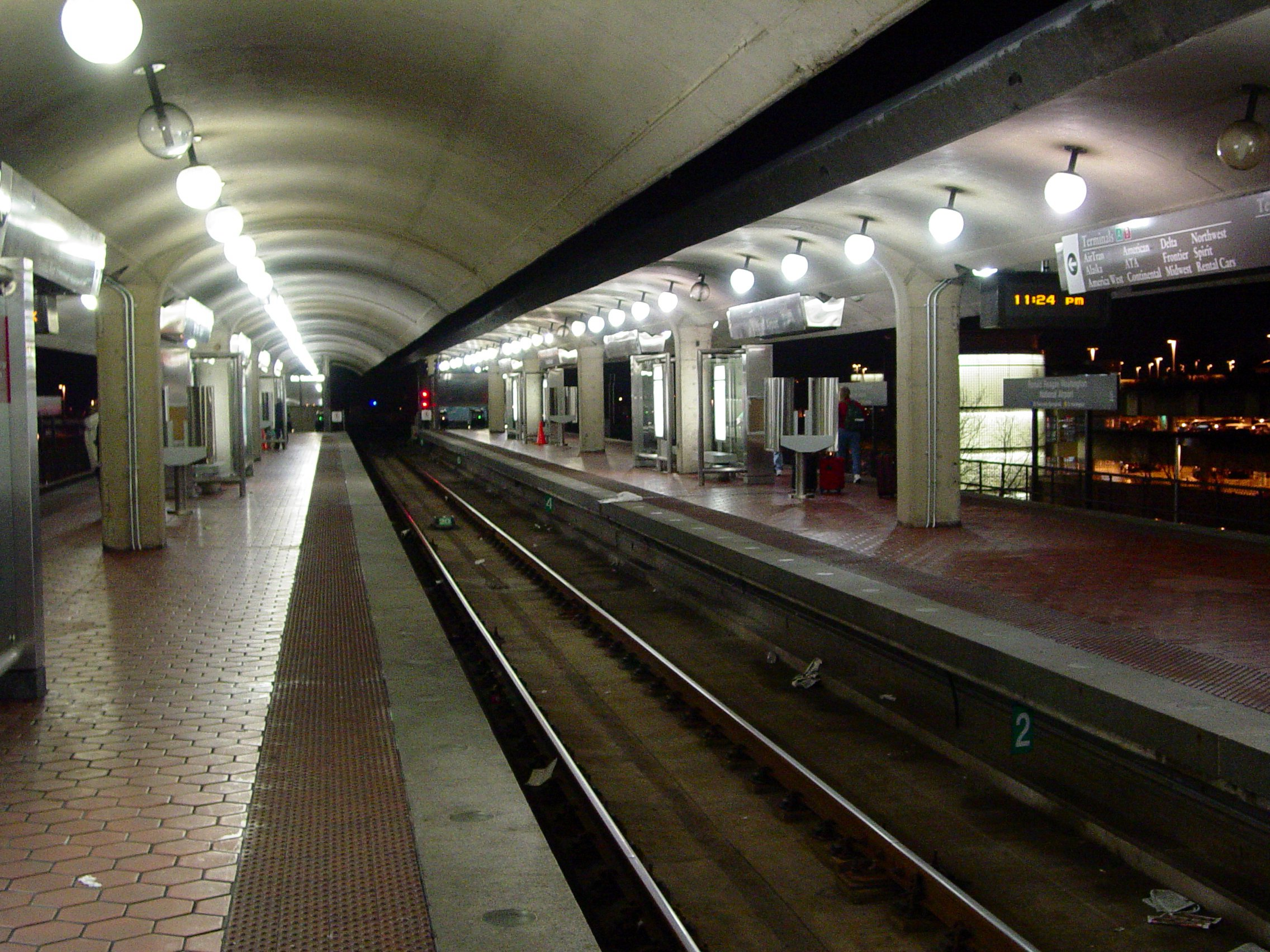 Washington Metro. Outbound view of National Airport station's platforms. The center track is visible in the middle of the photo, and the original canopy is visible above.